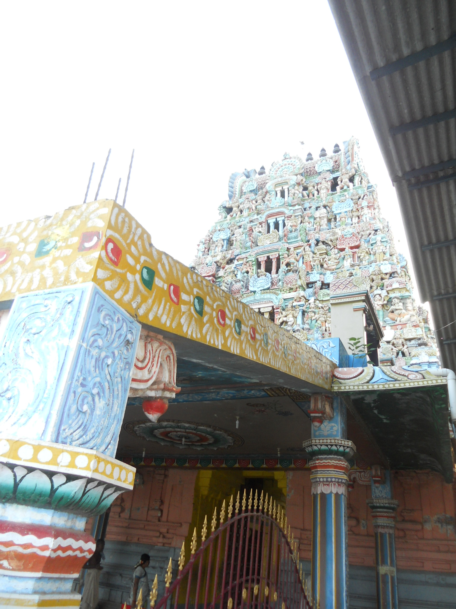 Tirukarugavoor temple